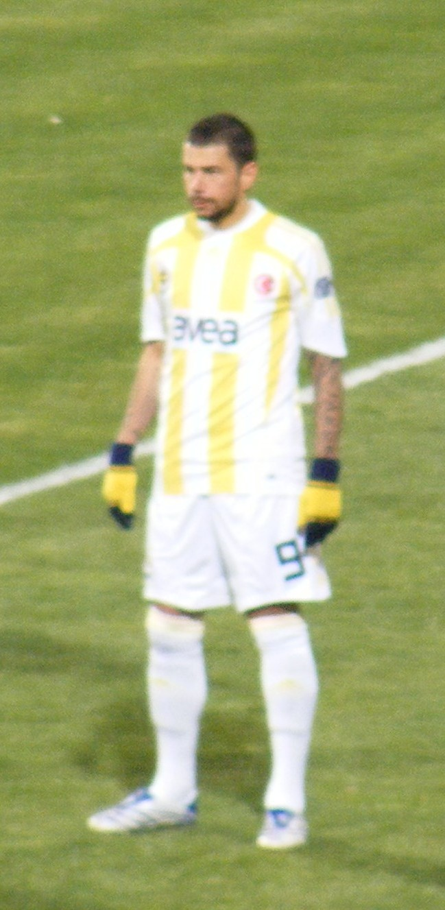 Kezman Pic. in encounter against Besiktas JK